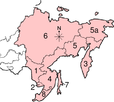 Fake map of Subdivisions of the Russian Far Eastern Federal District. Several divisions are missing: 1) Chukotka is not part of Magadan Oblast (since 1991) and should thus have its own number, 2) Kuril islands are not shown.